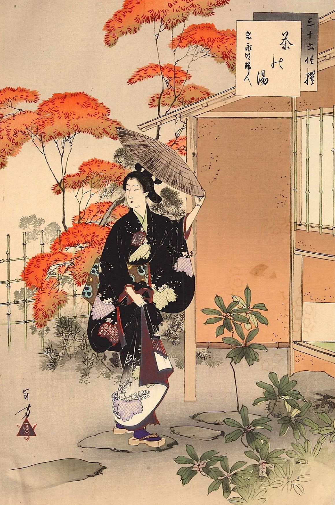 Tea Gathering: Women of the Hōei Era[1704-1711], from the series Thirty-six Elegant Selections, woodblock print